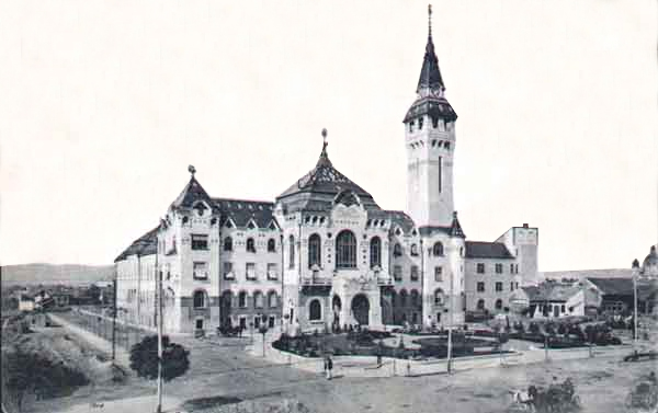 Old picture about Târgu Mureş